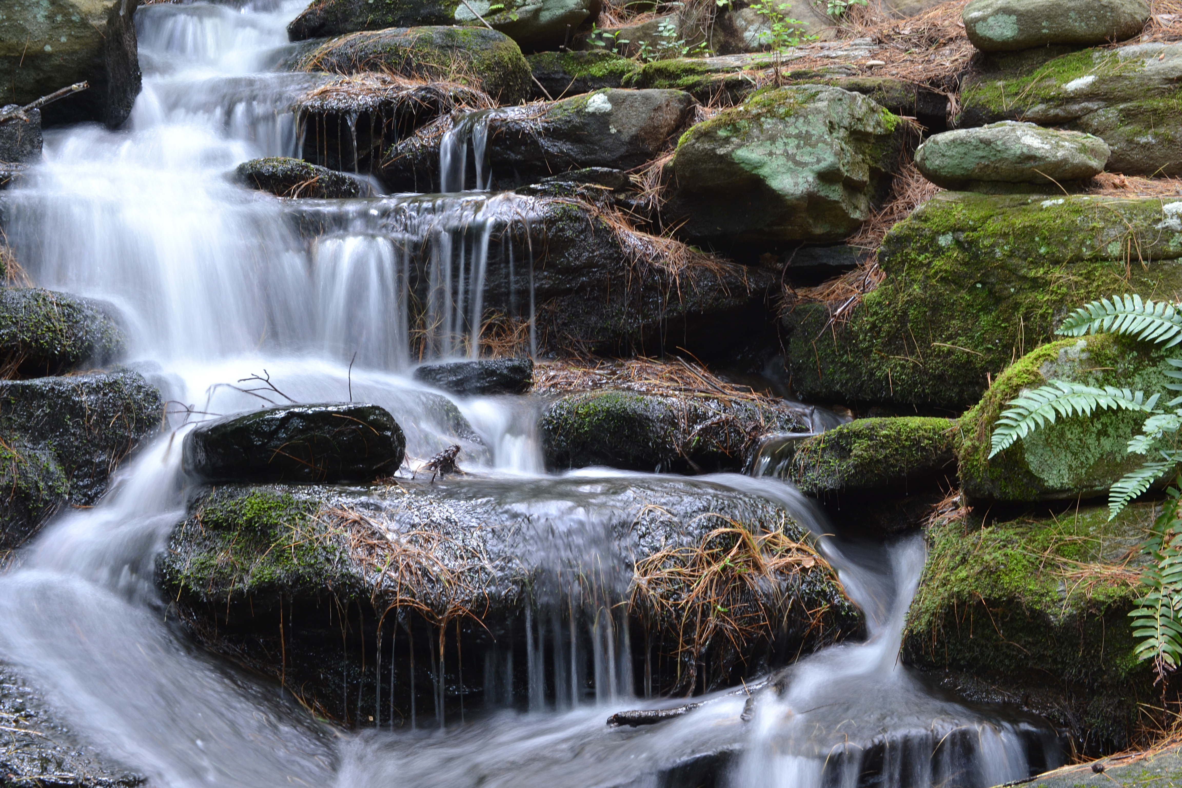 The waterfall at Stanley Park, in Westfield, Massachusetts, United States.